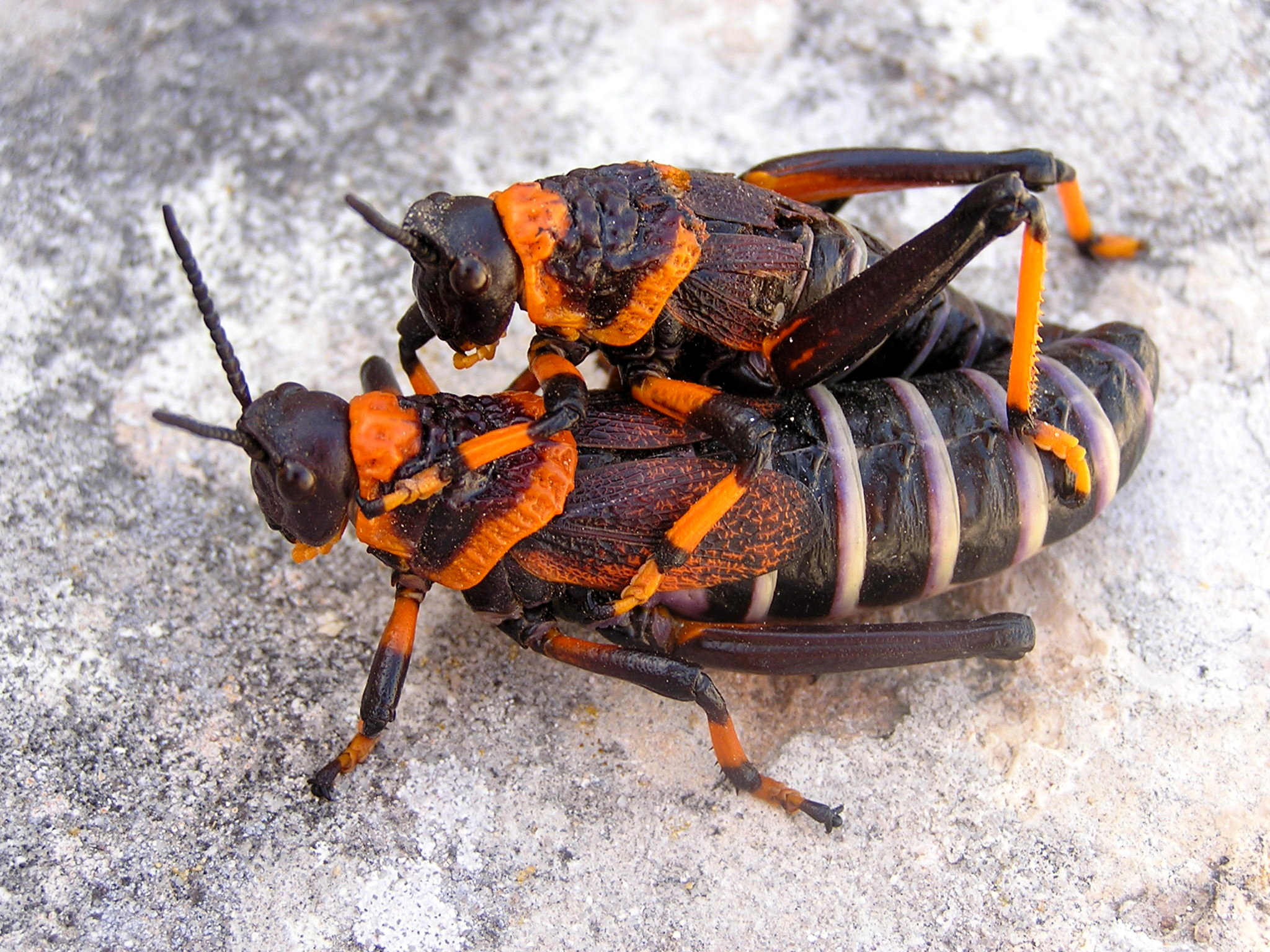 Dictyophorus spumans, West Coast National Park, South Africa